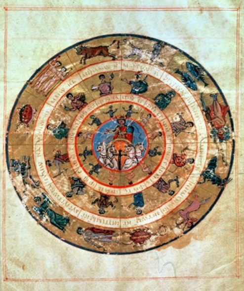 Zodiac and months from Tetrabiblos of Ptolemaios (Ptolemy); from 9th century Byzantine manuscript: Biblioteca Apostolica Vaticana, Vat. gr. 1292 - fol.9 (Zodiakon)